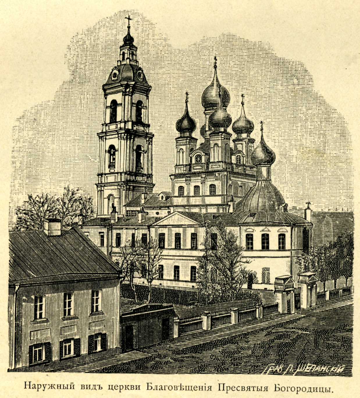 Saint Petersburg (Russia), Blagoveschenskaya Church